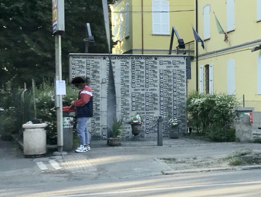 Villa Ospizio War memorial